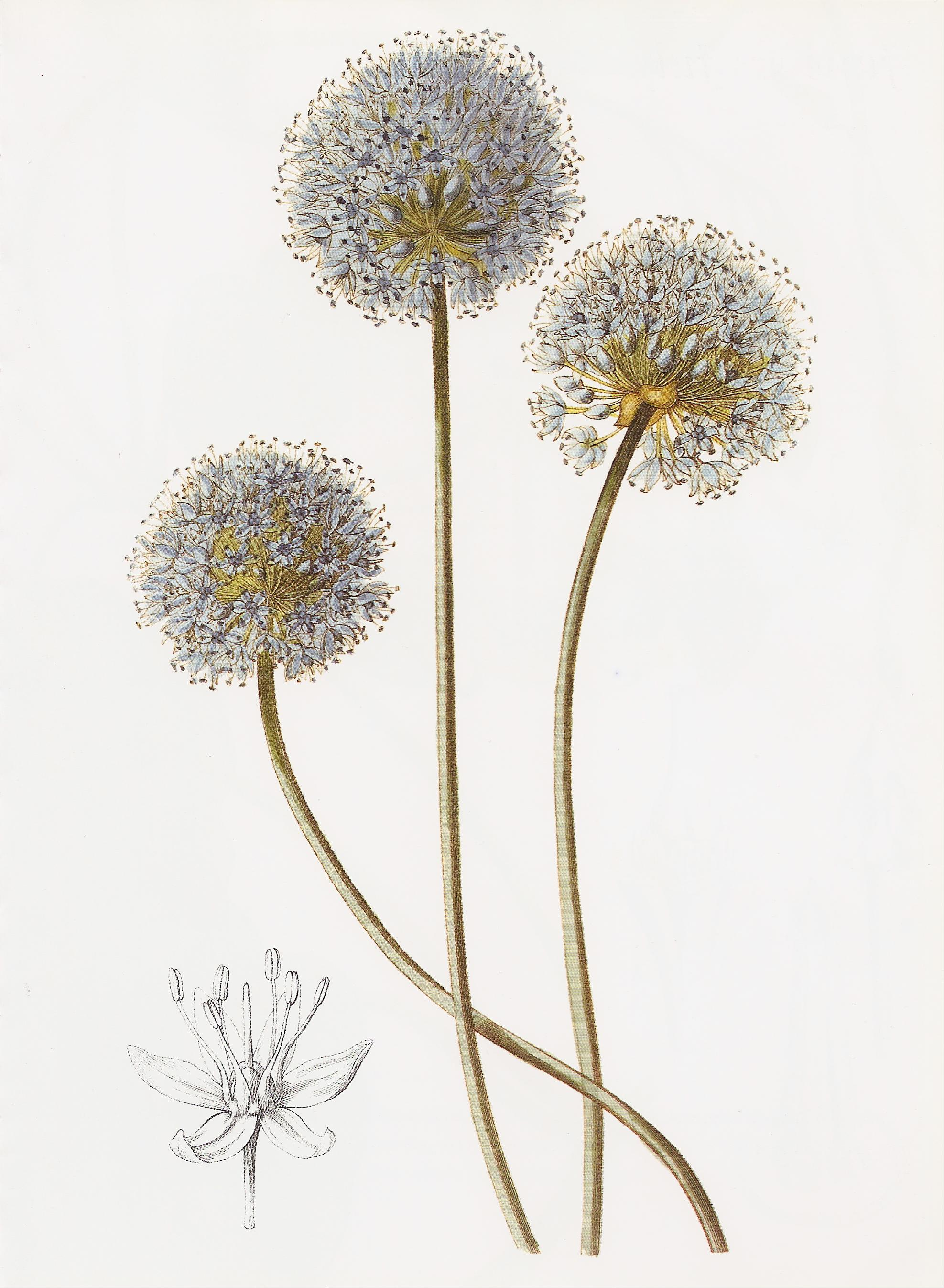 Allium caeruleum, a hand-coloured engraving after a drawing by Miss S. A. Drake (fl. 1820s-1840s), from the 26th volume of the Botanical Register (1840), edited by John Lindley